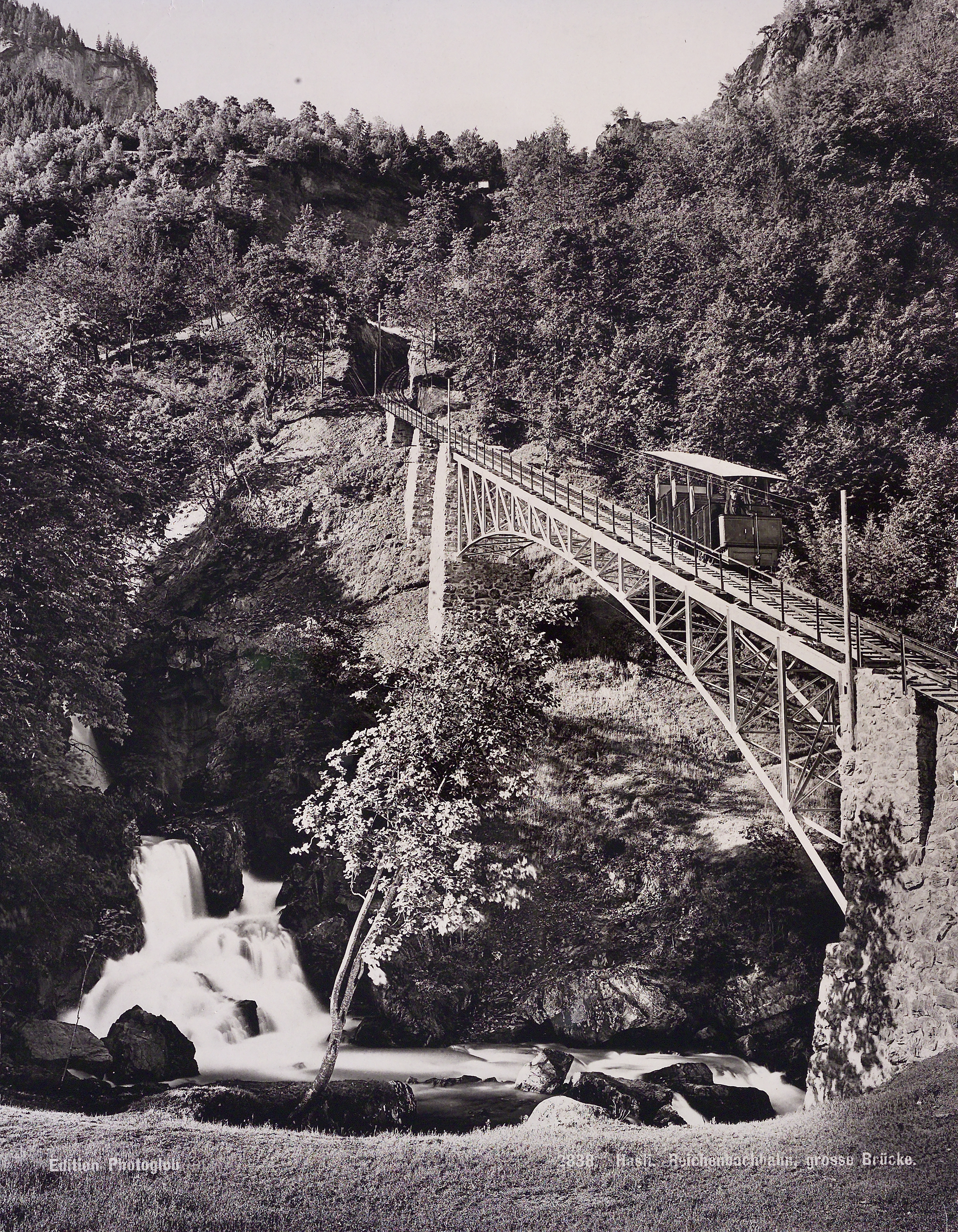 Car of the Reichenbachfall-Bahn funicular (RfB) on the line's longest bridge.